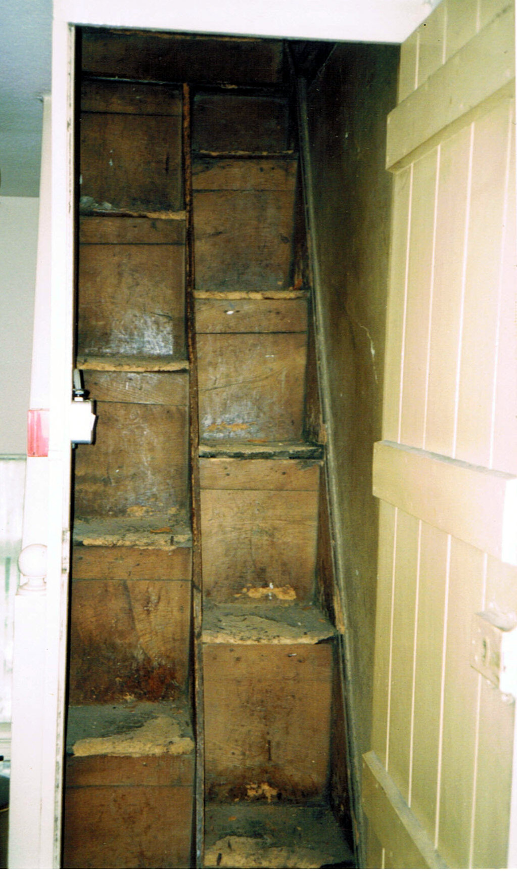 Split staircase (paddle stairs) to roof enables doubles the rise for the same depth.